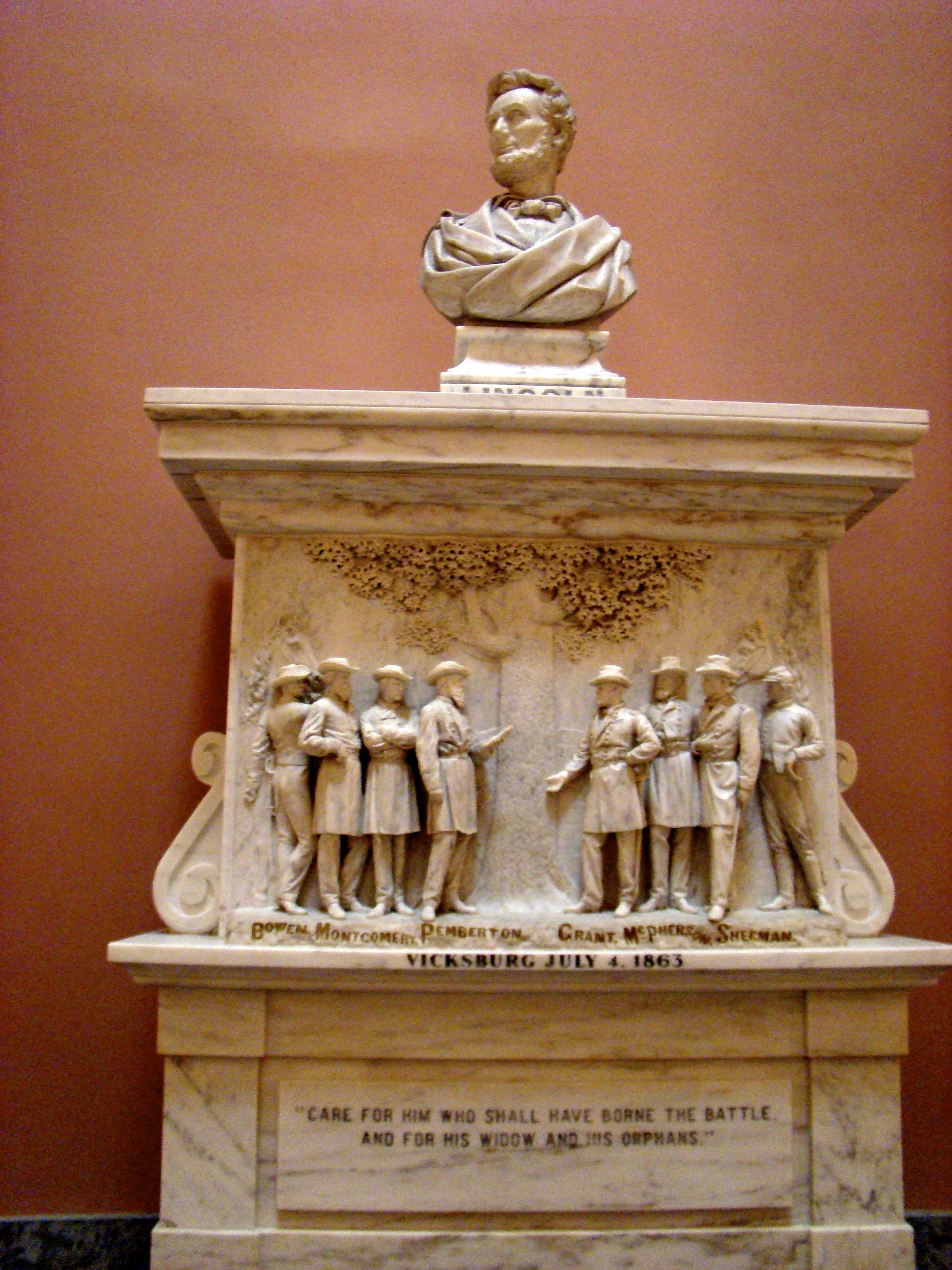 Sculpture commemorating the Battle of Vicksburg, July 4, 1863